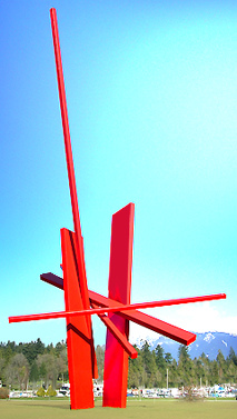 sculpture by John R. Henry in Vancouver/Canada